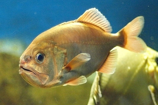 Blueberry roughy Gephyroberyx japonicus (Döderlein in Steindachner and Döderlein, 1883)